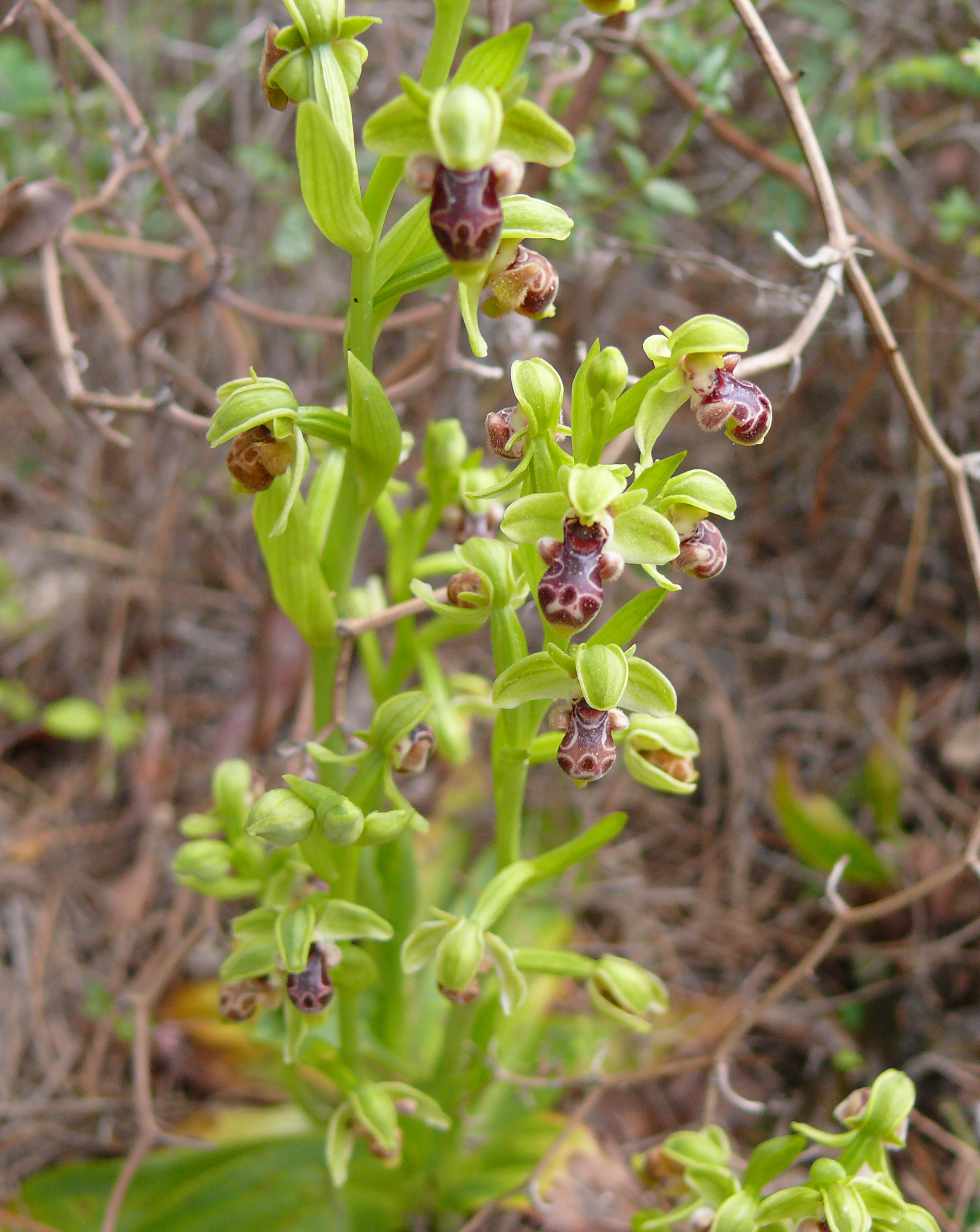 Ophrys umbilicata